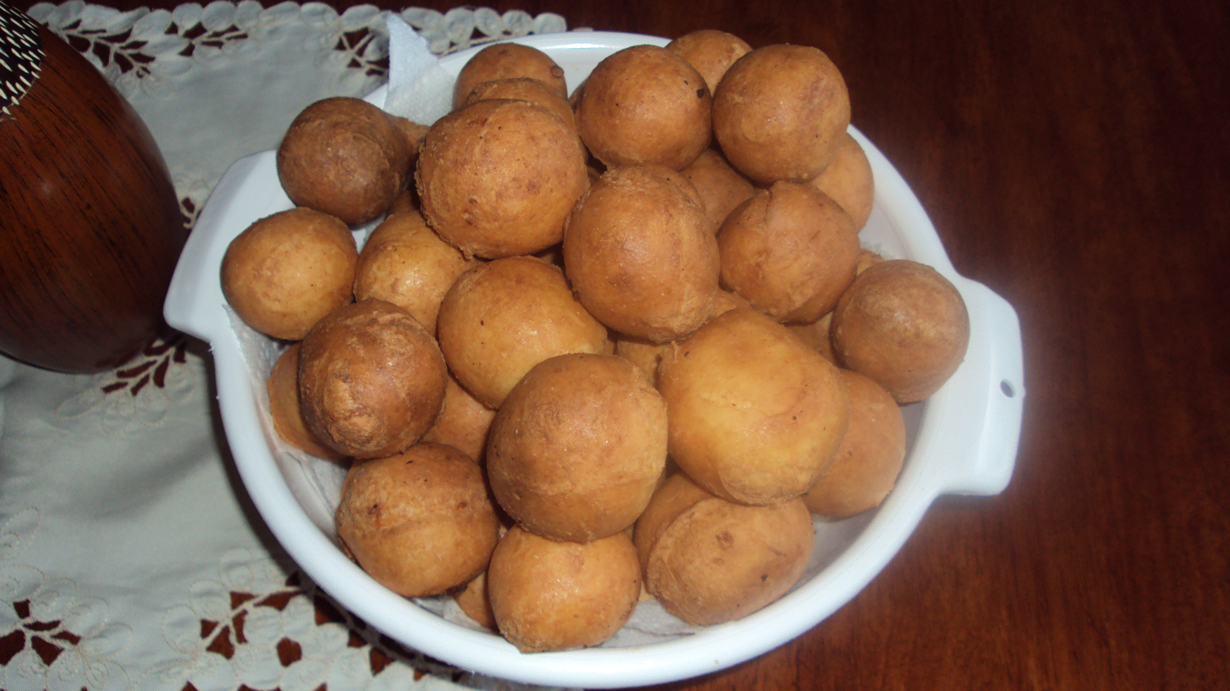 Fresh, home-made buñuelos.